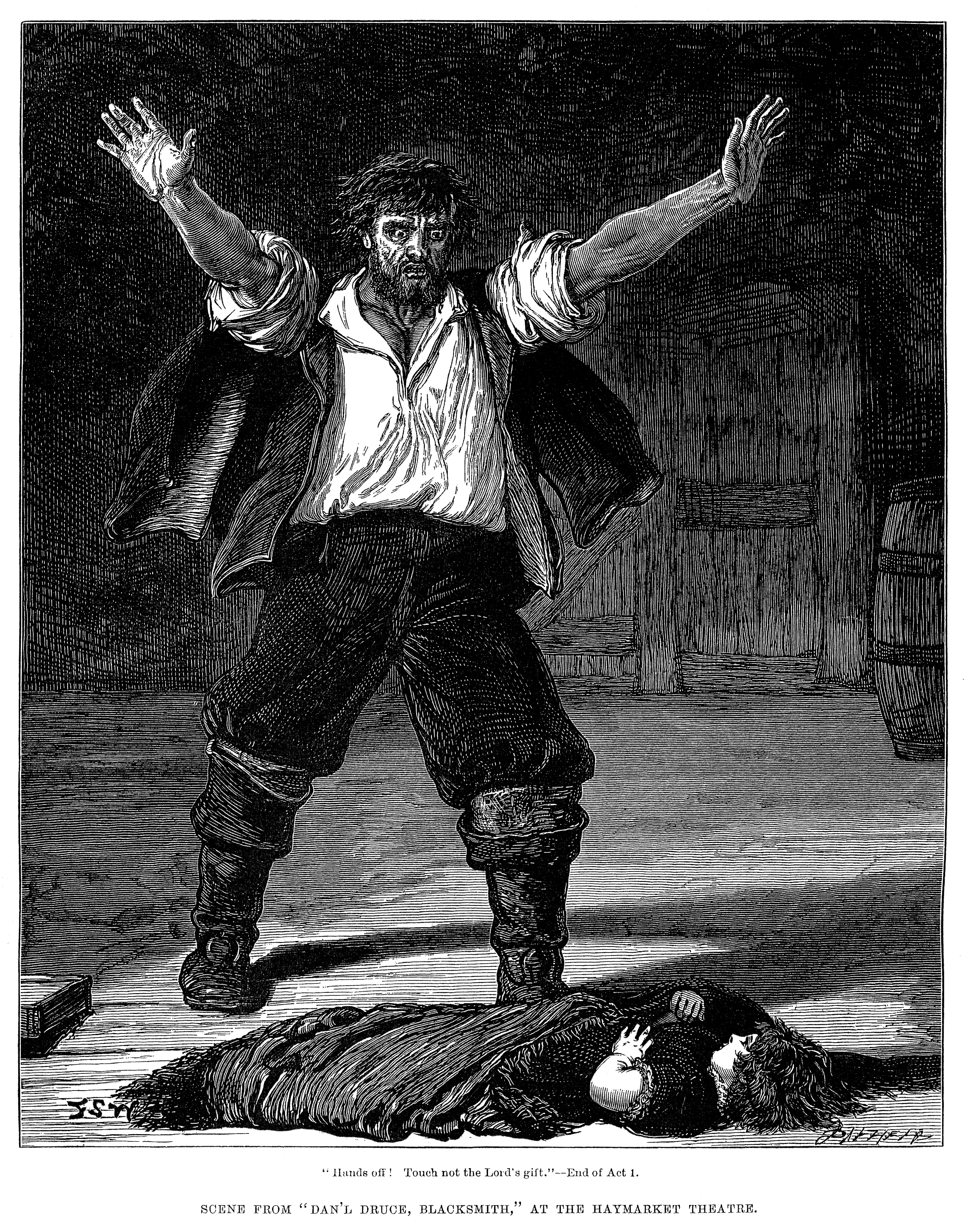 Original caption: "Hands off! Touch not the Lord's gift": Scene from "Dan'l Druce, Blacksmith" at the Haymarket Theatre. This drawing depicts Mr. Hermann Vezin playing Dan'l Druce, the blacksmith, and Marion Terry playing Dorothy, the abandoned child.